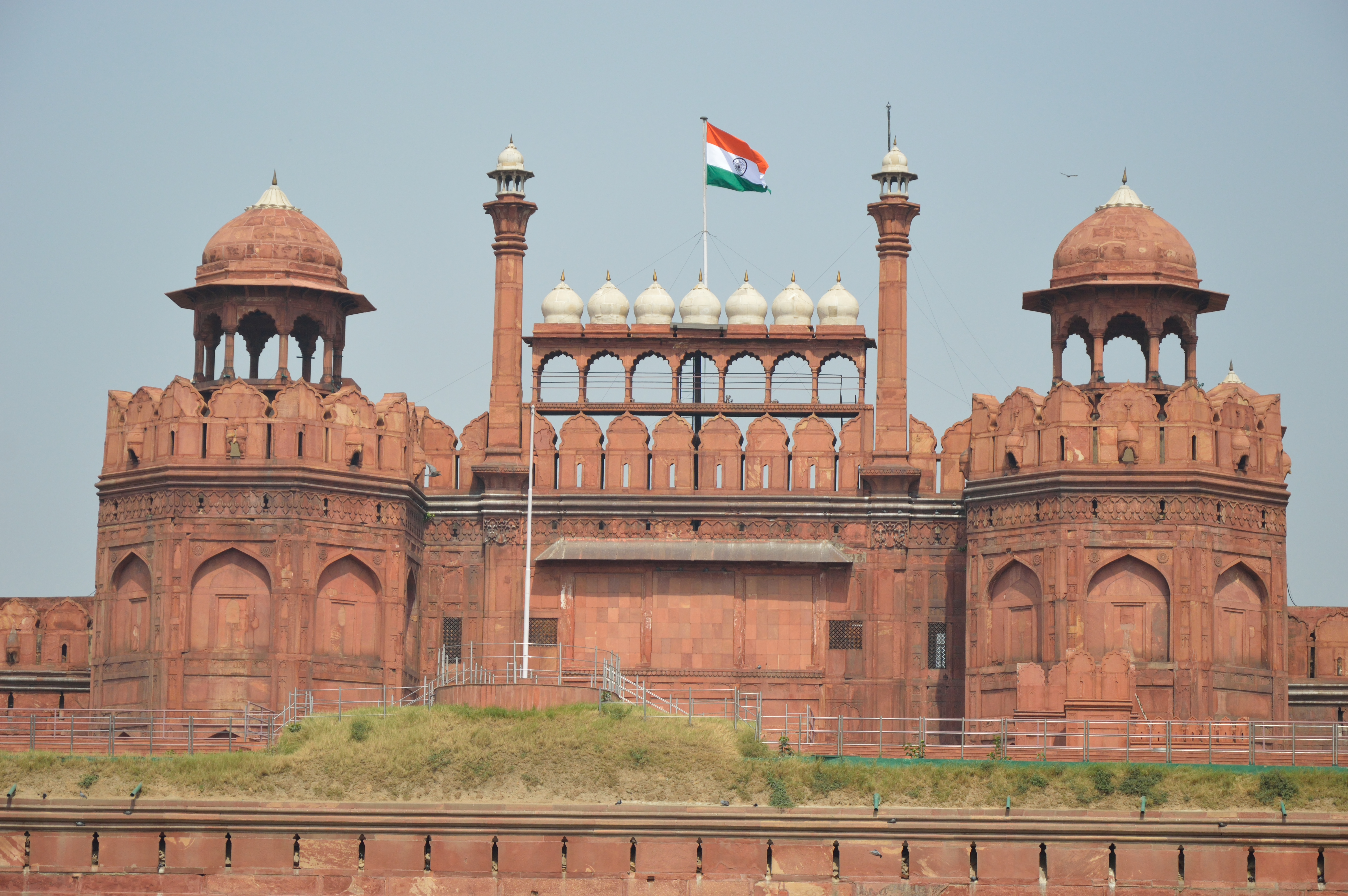 The Red Fort also known as Lal Qil'ah, or Lal Qila, meaning the Red Fort, located in Delhi, India is a UNESCO World Heritage Site. This photograph has been uploaded during the 'Wiki Loves Monuments 2014' from India.